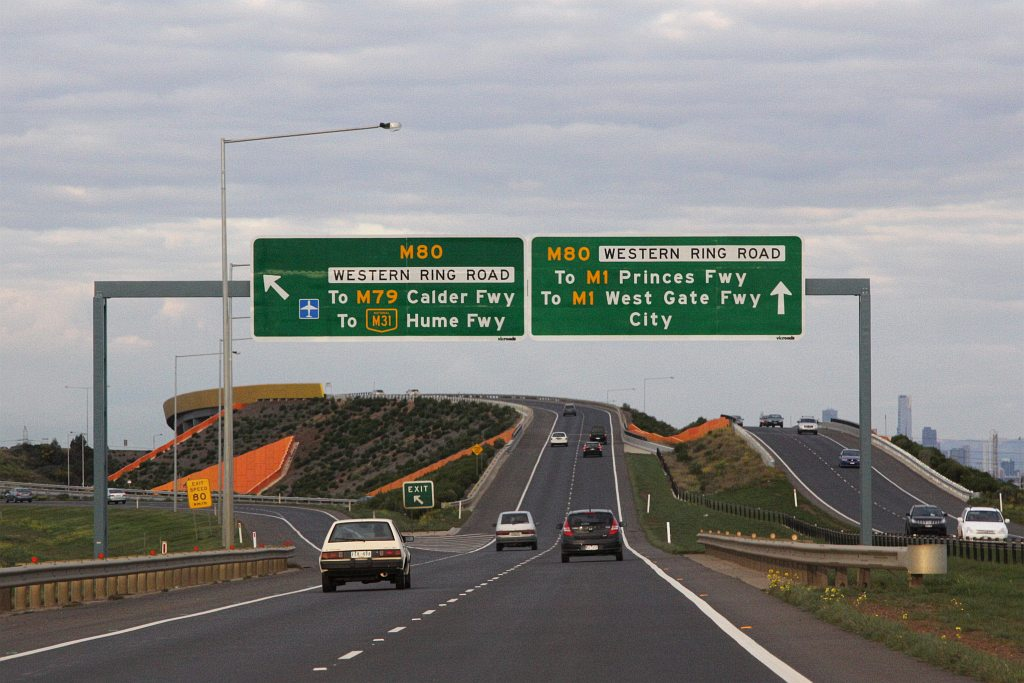 Deer Park Bypass eastbound at Western Ring Road. Melbourne, Victoria, Australia